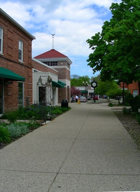 This is a photo of a section of the downtown shopping district on Broad Street in Greendale, Wisconsin.